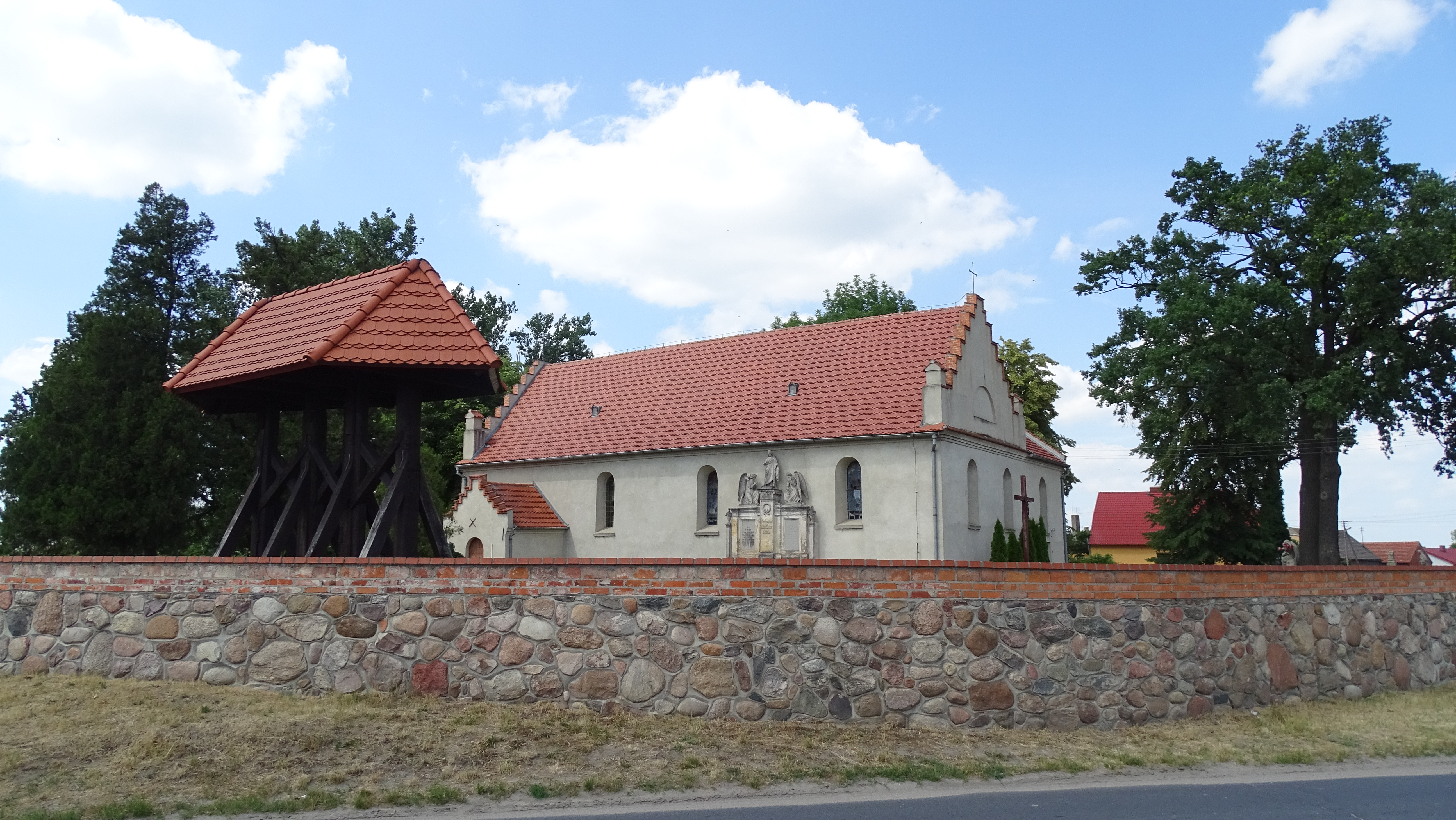 Gołaszyn, Rawicz County, Poland. Church of Saint Michael. Built probably in the 14th century.